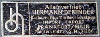 Furrier's tool: Let out roller